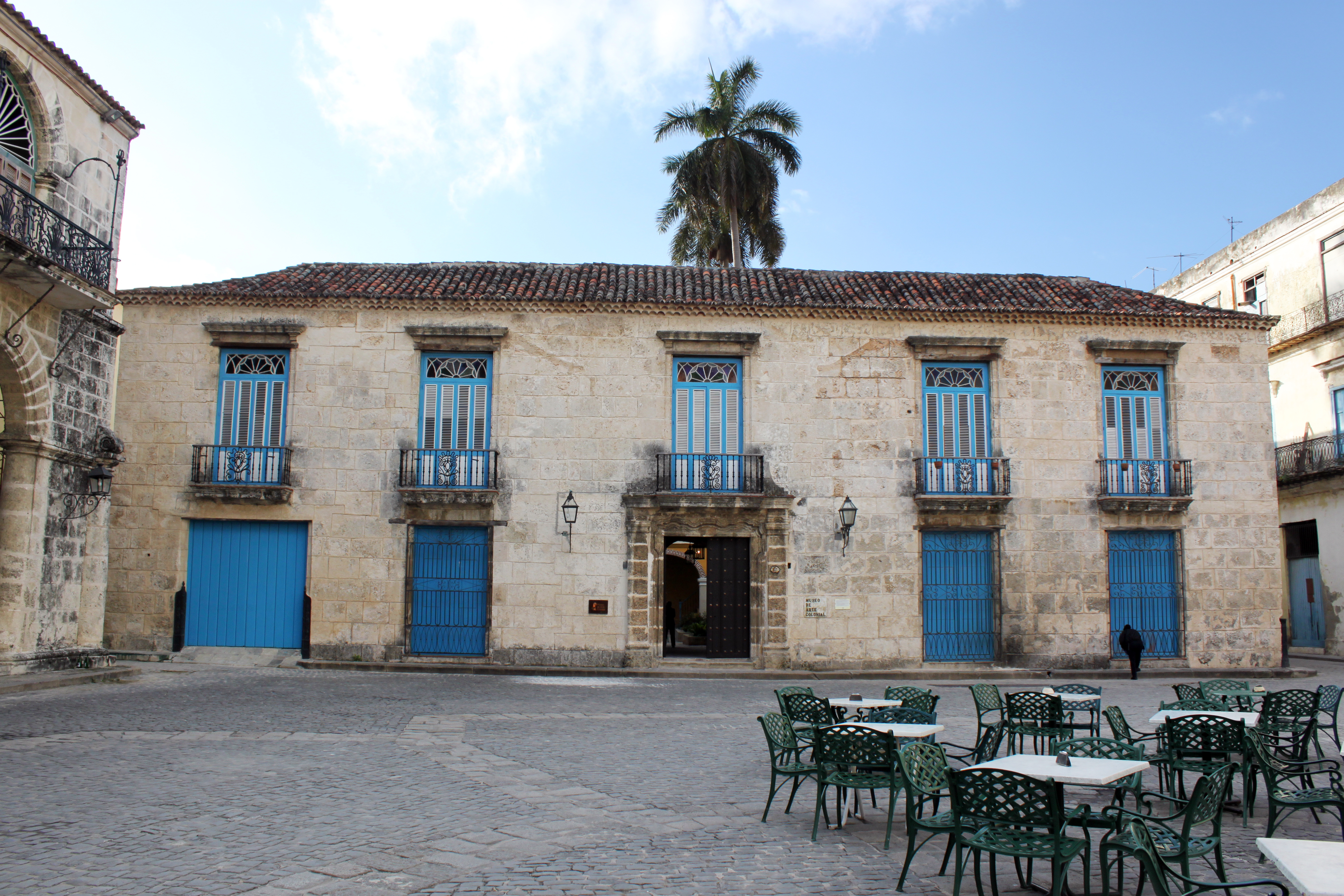 Museo de Arte Colonial, Havana, Cuba